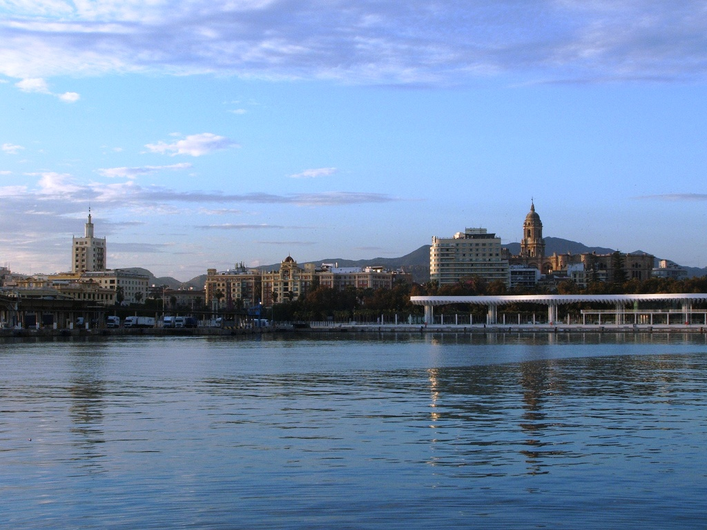 Malaga harbour, Spain.